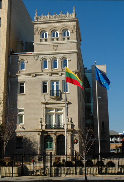 Lithuanian Embassy